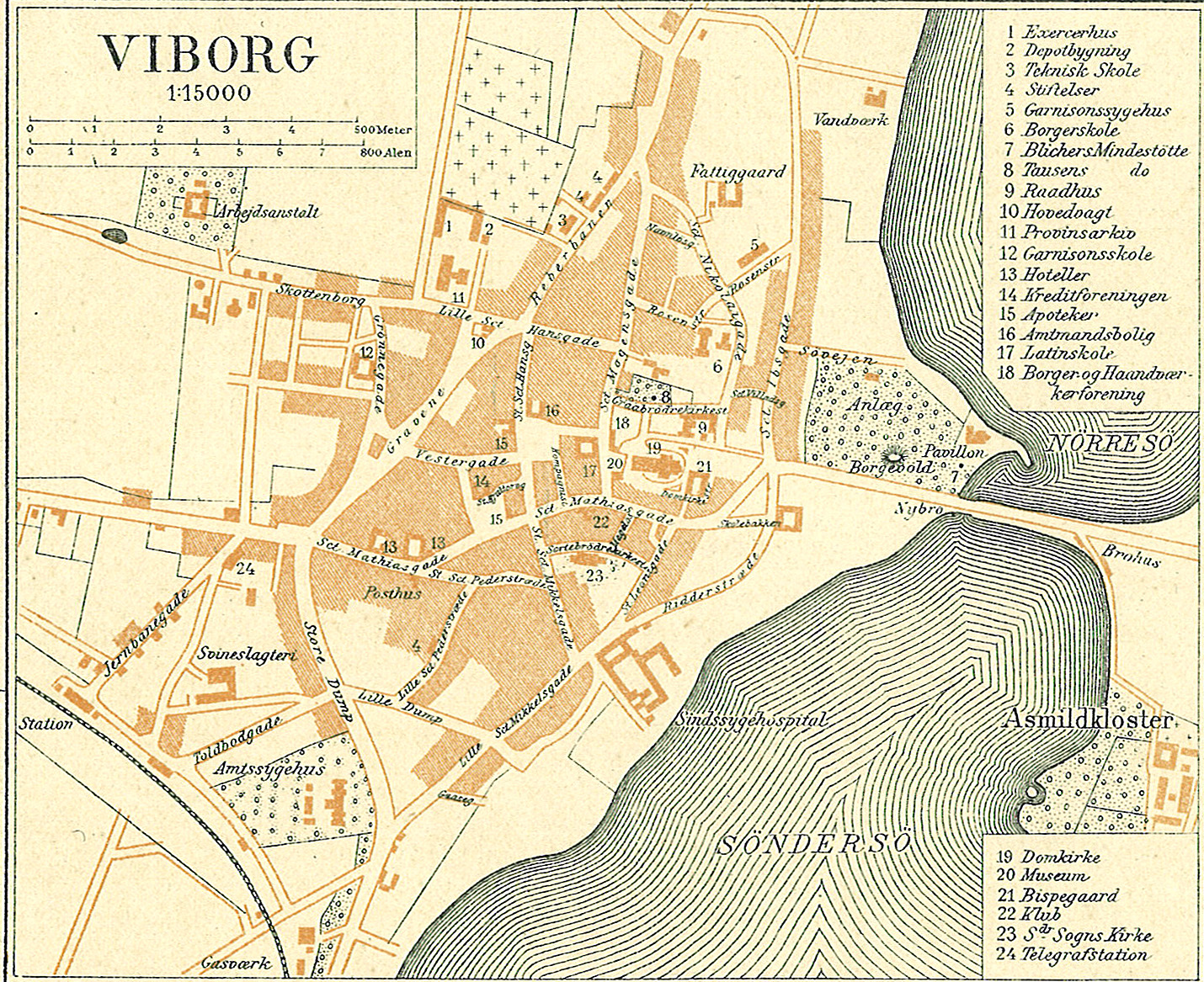 Map of Viborg in Viborg County in Denmark, round year 1900